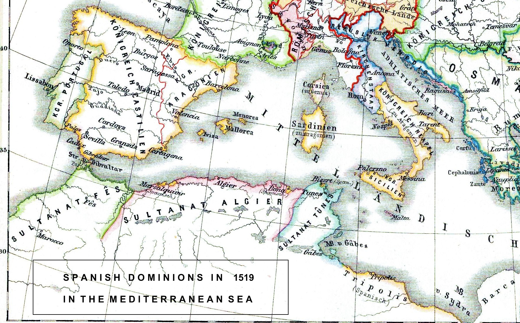 Spanish Mediterranean dominions in 1519 (yellow)